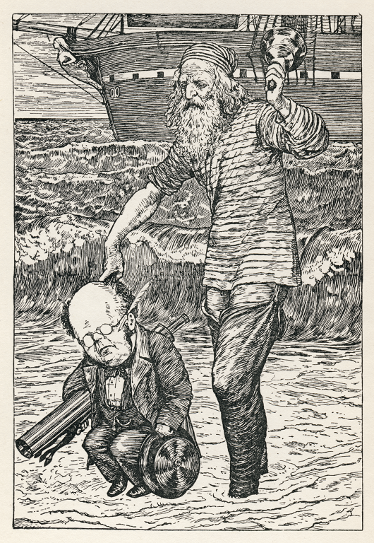 First of Henry Holiday's original ilustrations to "The Hunting of the Snark" by Lewis Carroll. This illustrates the opening of "Fit the First": The Landing. "Just the place for a Snark!" the Bellman cried, As he landed his crew with care; Supporting each man on the top of the tide By a finger entwined in his hair.